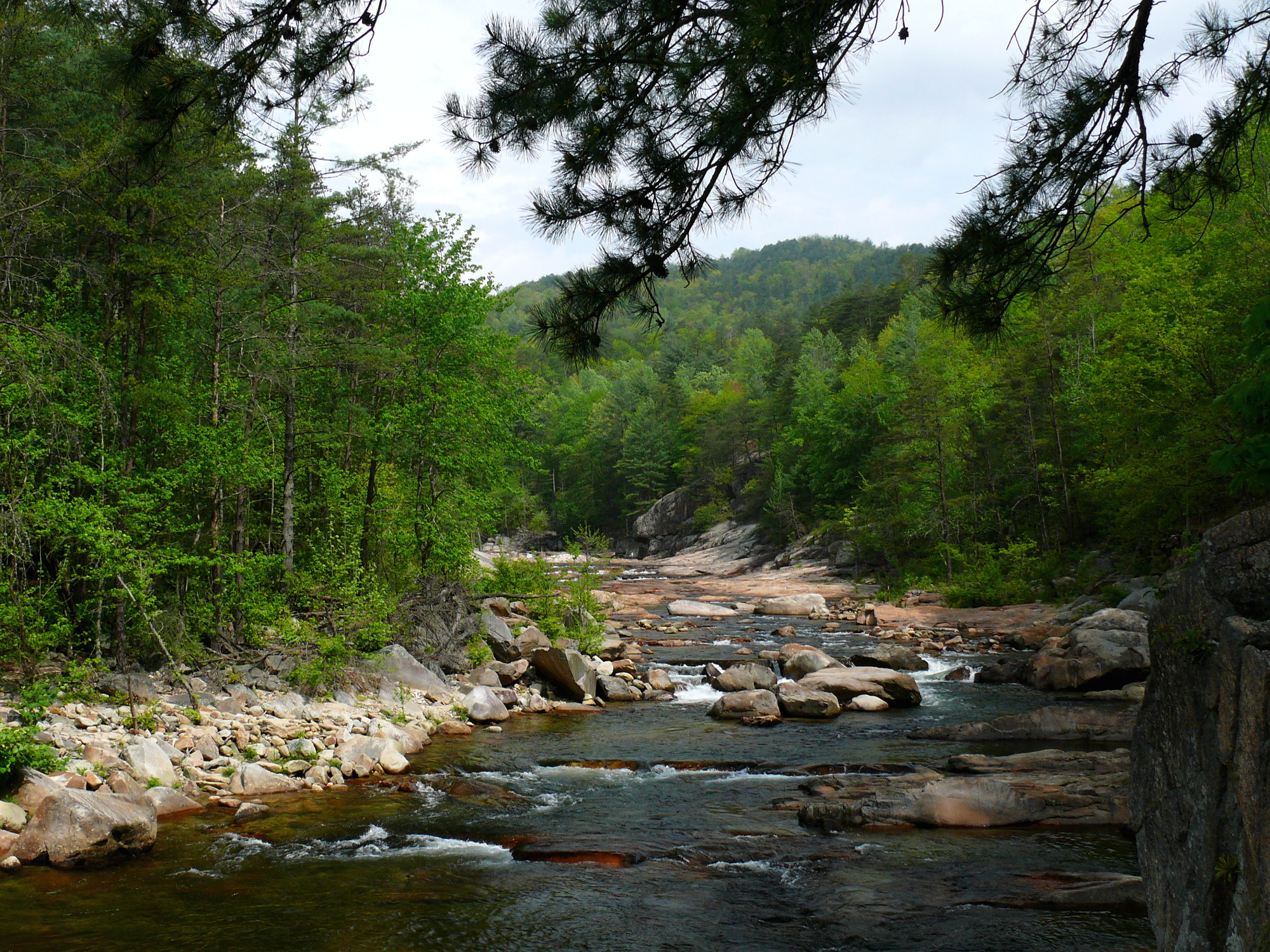 Wilson Creek is a popular kayaking and trout fishing stream near the community of Collettsville in the western part of Caldwell County, NC, USA.Photo taken with a Panasonic Lumix DMC-FZ50.